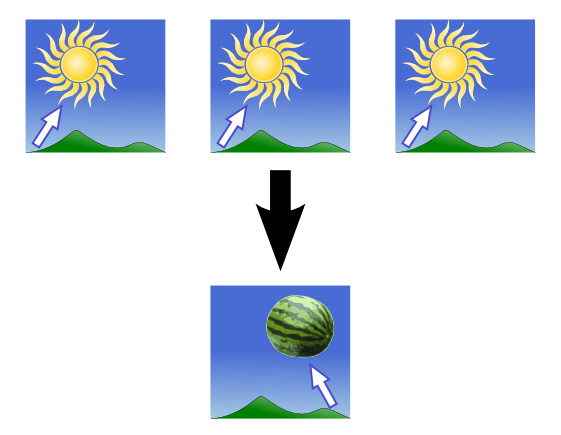 an example of violation of the Principle of the uniformity of nature in enumerative induction.Premises are "Sun rose in the east today" "Sun rose in the east yesterday" "Sun rose in the east day before yesterday". Conclusion is "Watermelon rises in the west tomorrow".